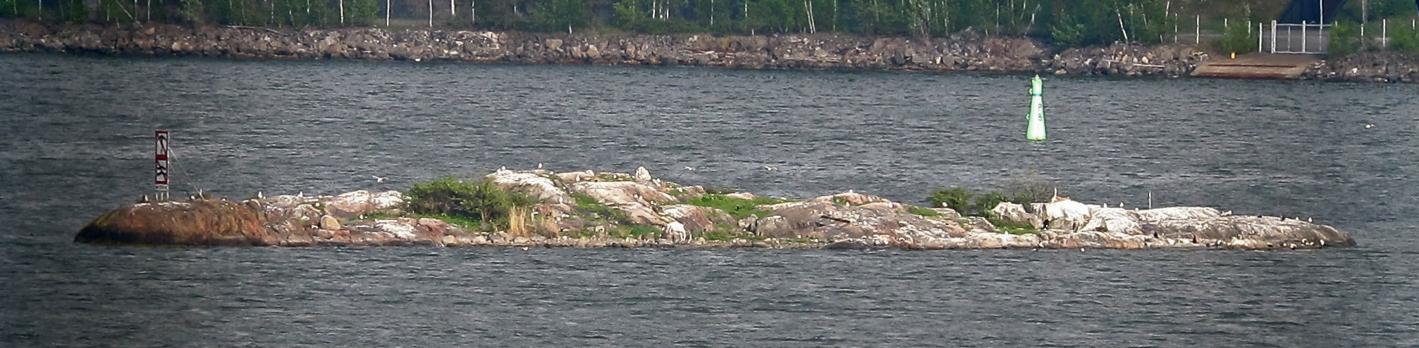 Small Äijäkari islet in front of Ruissalo island viewed from Ajonpää bedrock in island of Luonnonmaa, Naantali, Finland. Digiscoped with Swarovski ATS 80 HD + 20-60x zoom.